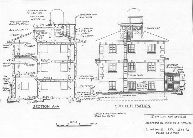 These WWII-era drawings detail a structure that contained three base end/spotting stations for guns defending Boston Harbor, as well as a Harbor Defense Command post and an observation station for the Southern Command of the harbor defenses. On the roof was one of the two surveillance radars serving the Harbor Defense Command. The structure was made to look like a private beachfront home, and its nearby "garage" housed additional base end stations. The building was about 26 feet square on the inside, with three observing levels and a height of 26 feet above ground, and an additional 7 feet of radar dome. The viewing slits on the plans above looked out toward the northeast, so the Section A-A is oriented NE-SW. It was located on the Atlantic side of the "elbow" of Point Allerton. Today (in 2010), the structure has been razed to enable the development of multi-million dollar seaside homes.